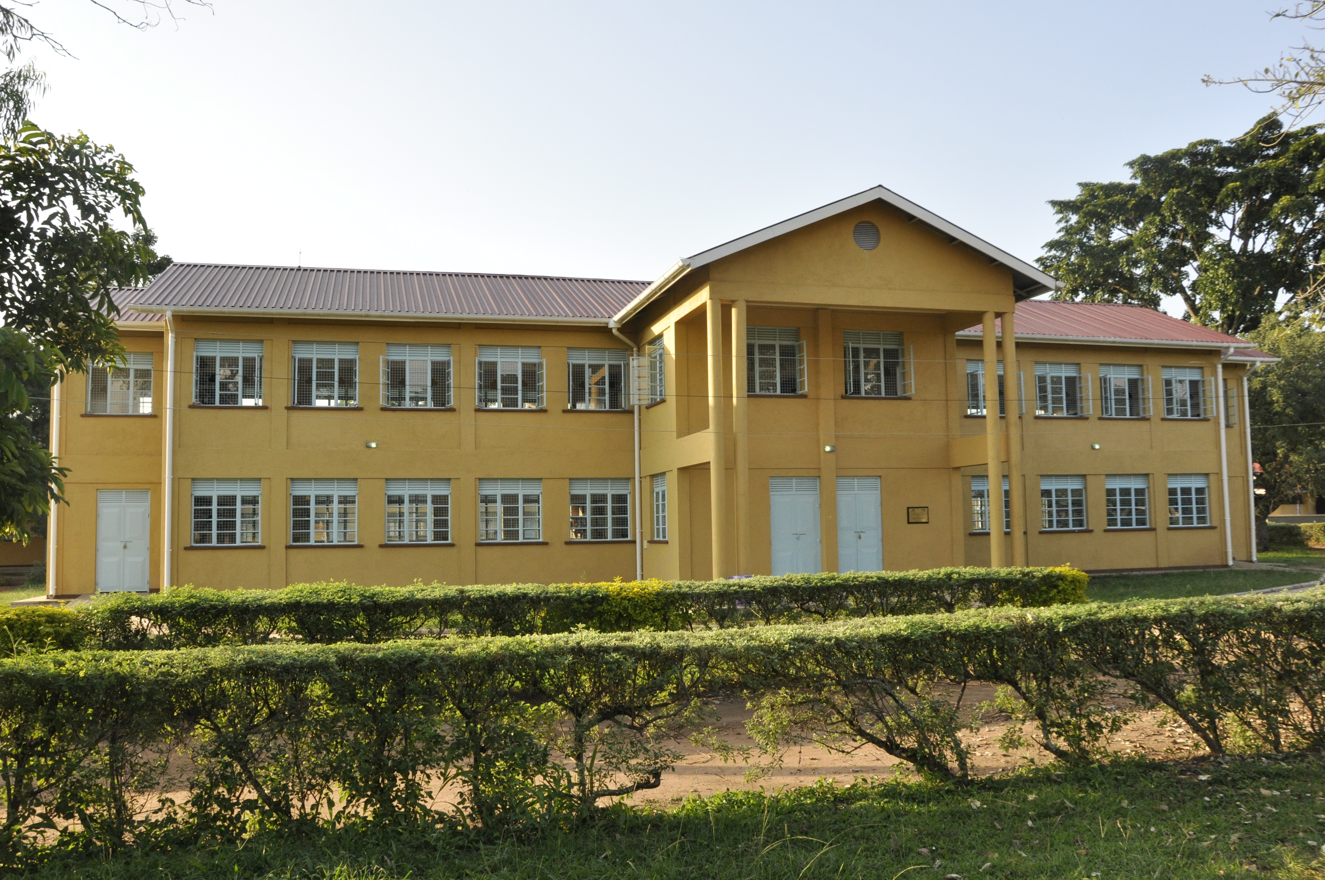 2014 New TCA East Wing Library with sitting capacity of 300